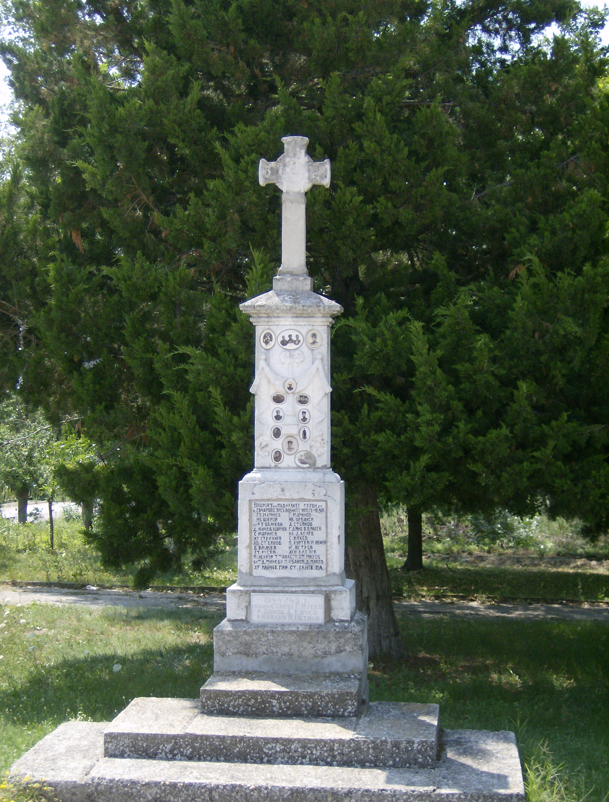 Ovcharovo Monument — in Shumen Province, northeastern Bulgaria.